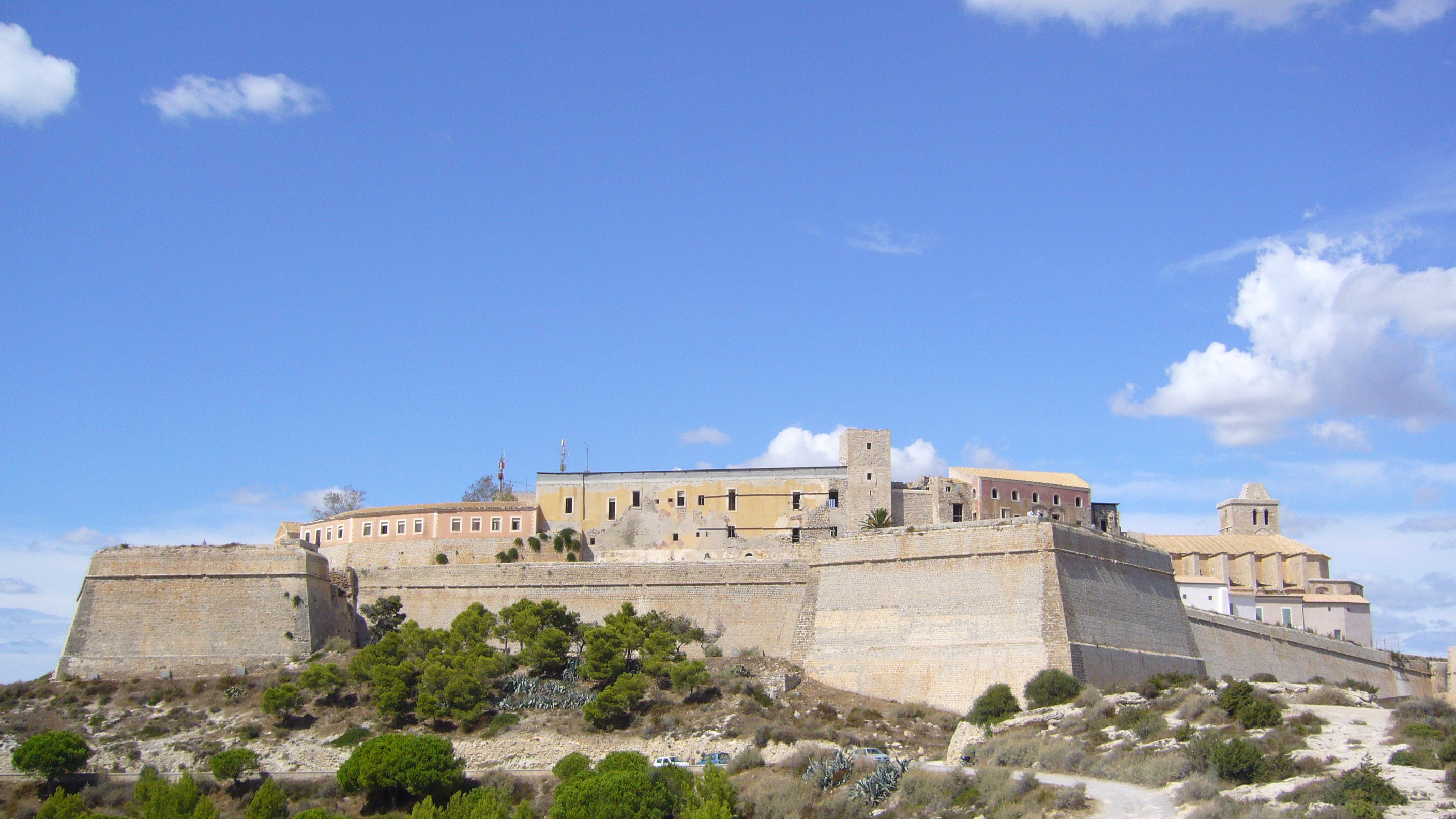 Castle and Cathedral, a UNESCO world heritage site